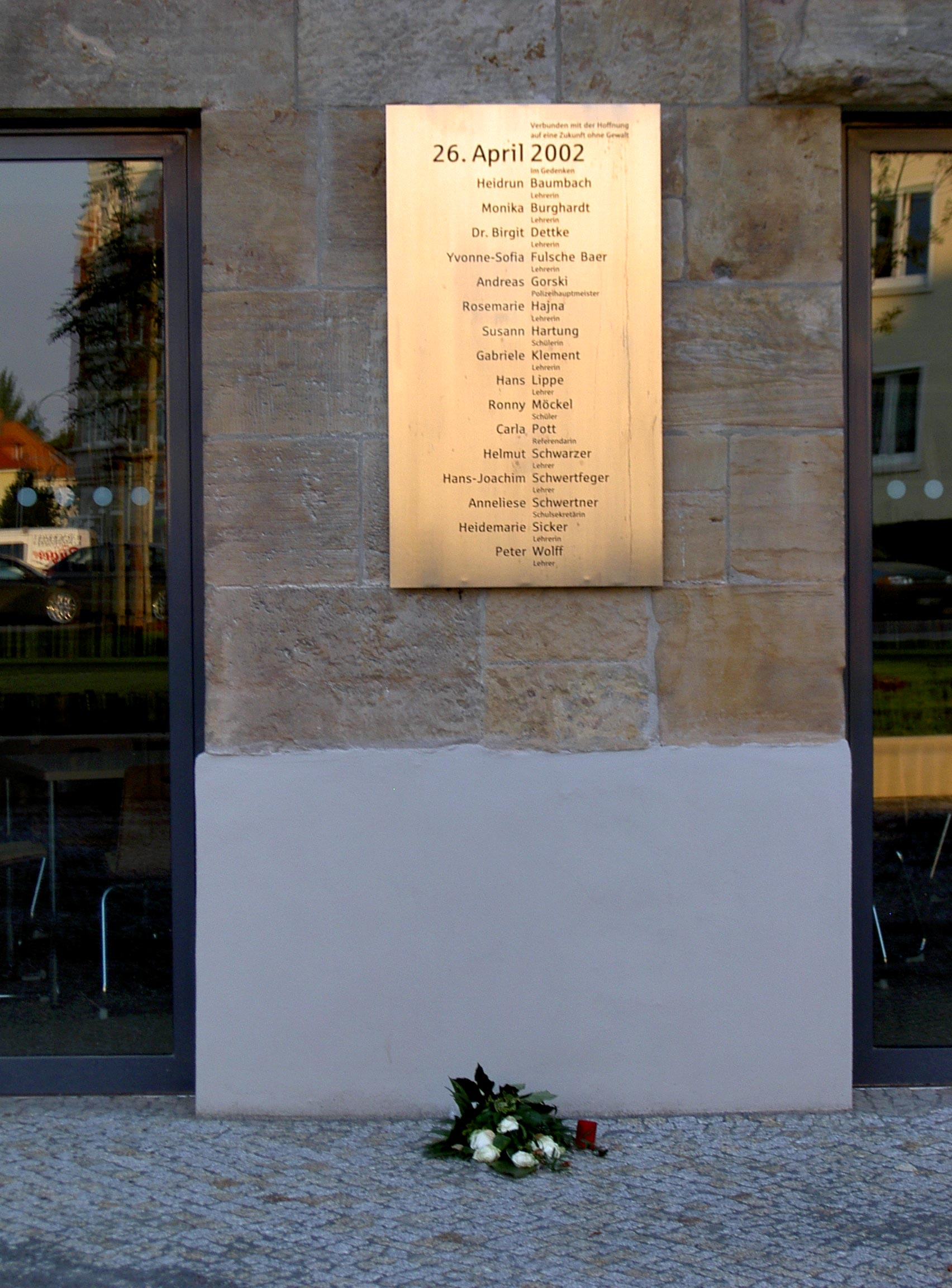 Memorial tablet on the front side of the Gutenberg-Gymnasium.